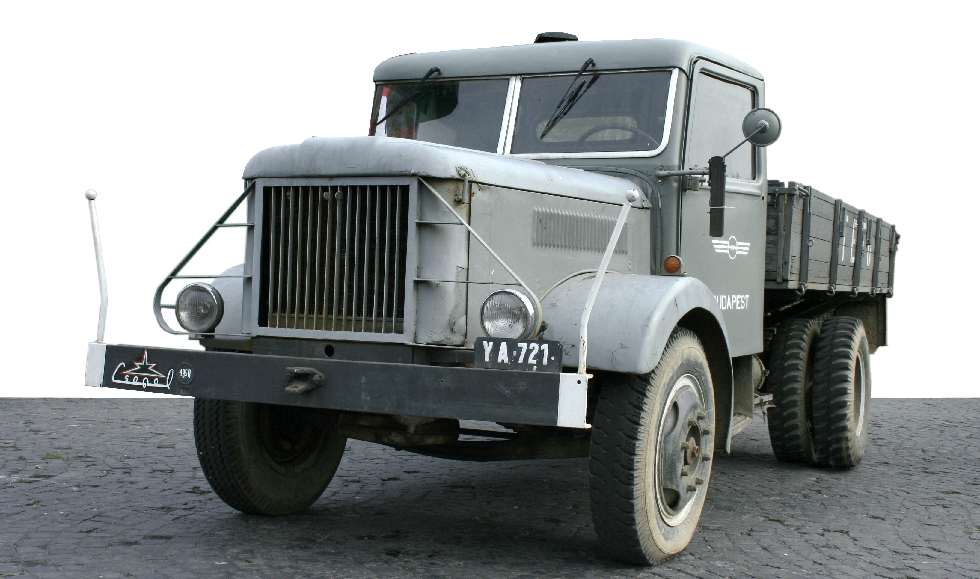 Csepel Hungarian truck 1955.